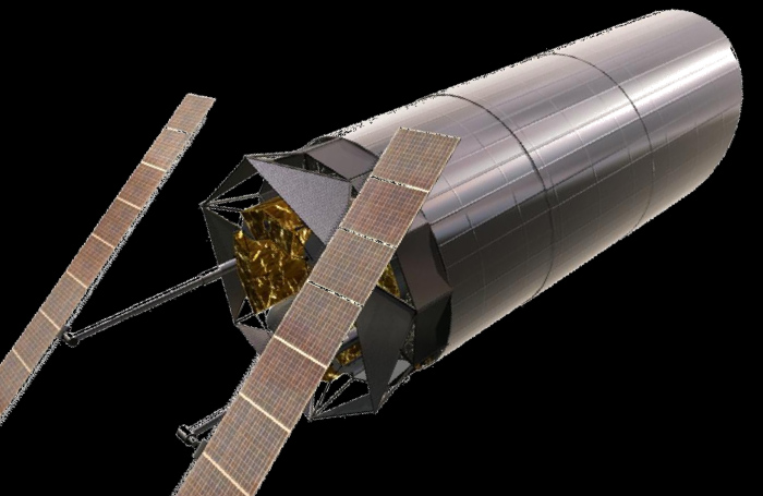 8m ATLAST artist's conception (STSCI)